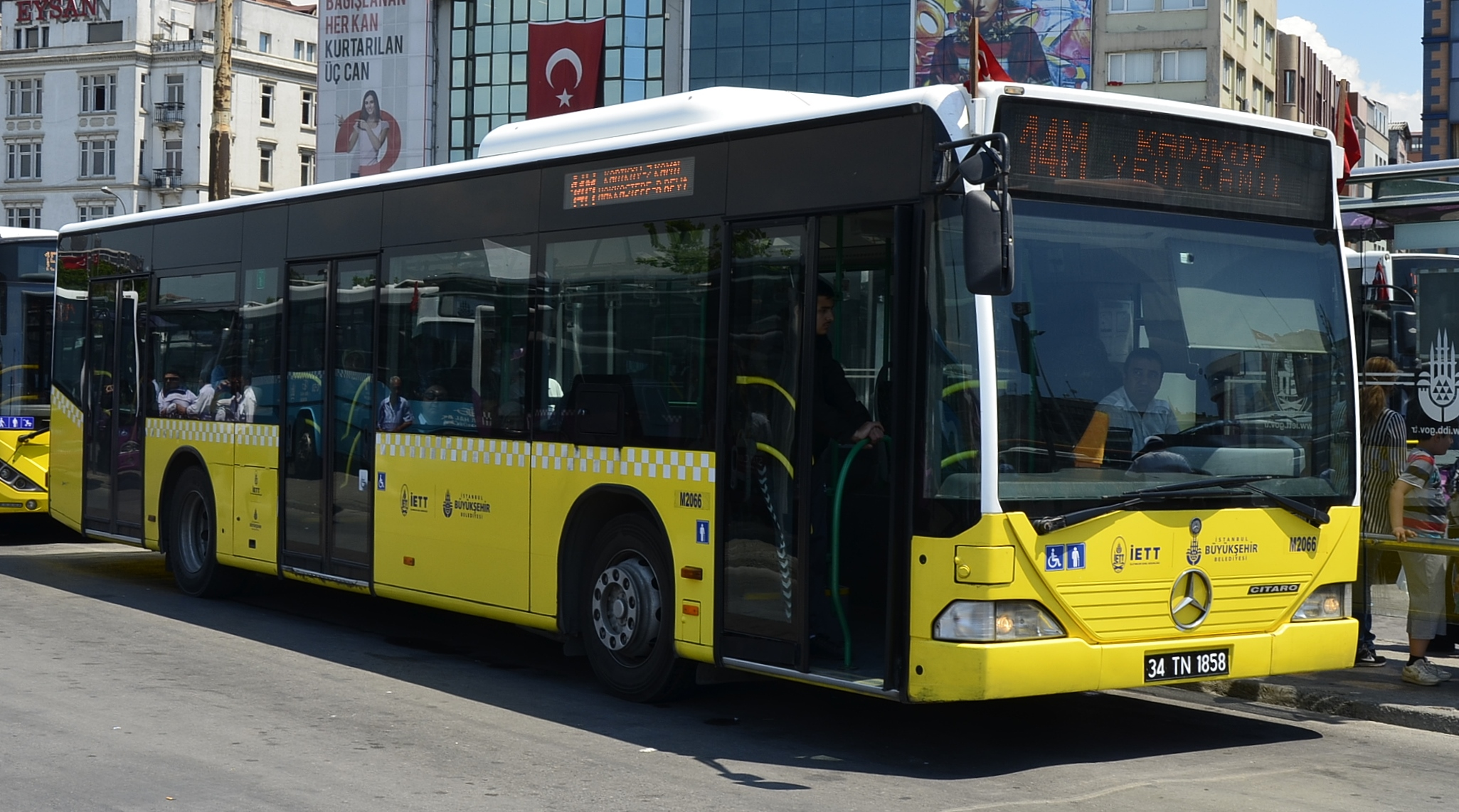 Public transport bus in Istanbul